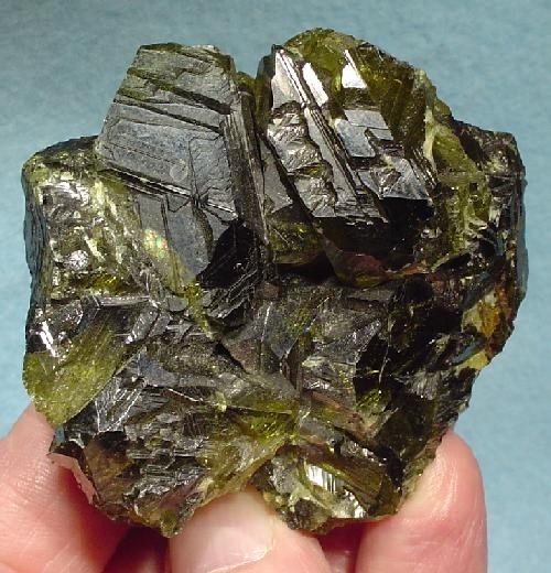 Sphalerite Locality: Big Four Mine, Kremmling (Grand County), Summit County, Colorado, USA (Locality at ) Size: 6.5 x 6.0 x 3.5 cm. A fine and lustrous cluster of green to reddish-yellow, twinned sphalerite crystals from Colorado! The two dominating crystals have superb striations and texture. This specimen is from an uncommon locality - the Big Four Mine, Summit County, near Kremmling. Ex. George Elling Collection.